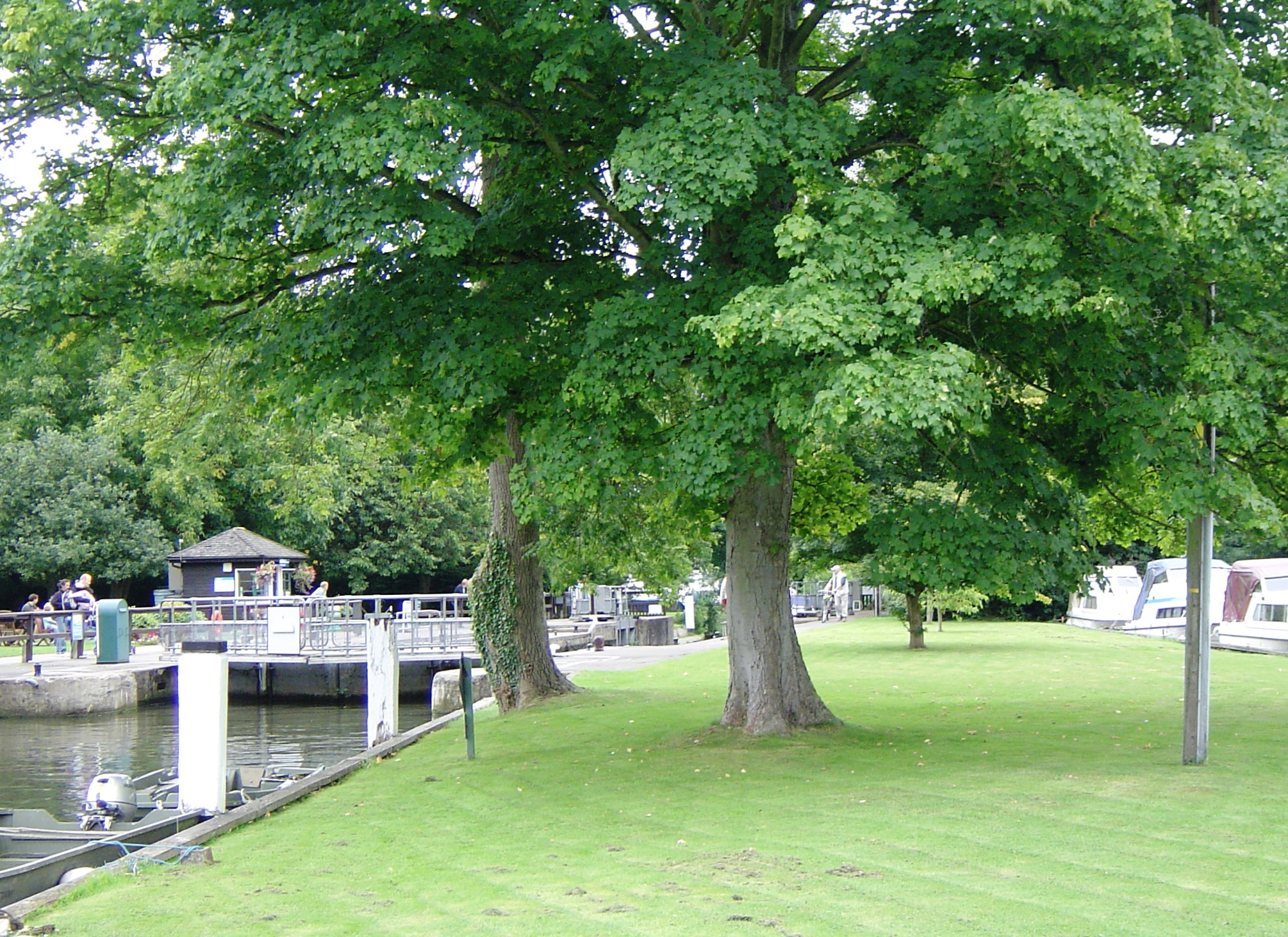 Hurley Lock River Thames